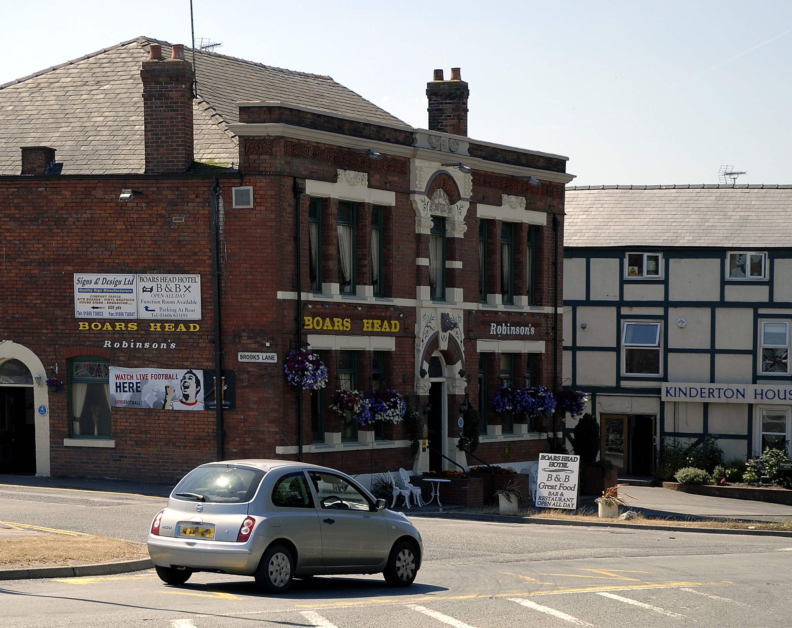 Photograph of the Boars Head public house in Middlewich. The Boars Head is on the corner of Brooks Lane and Kinderton Street. Photo taken by self. 2006